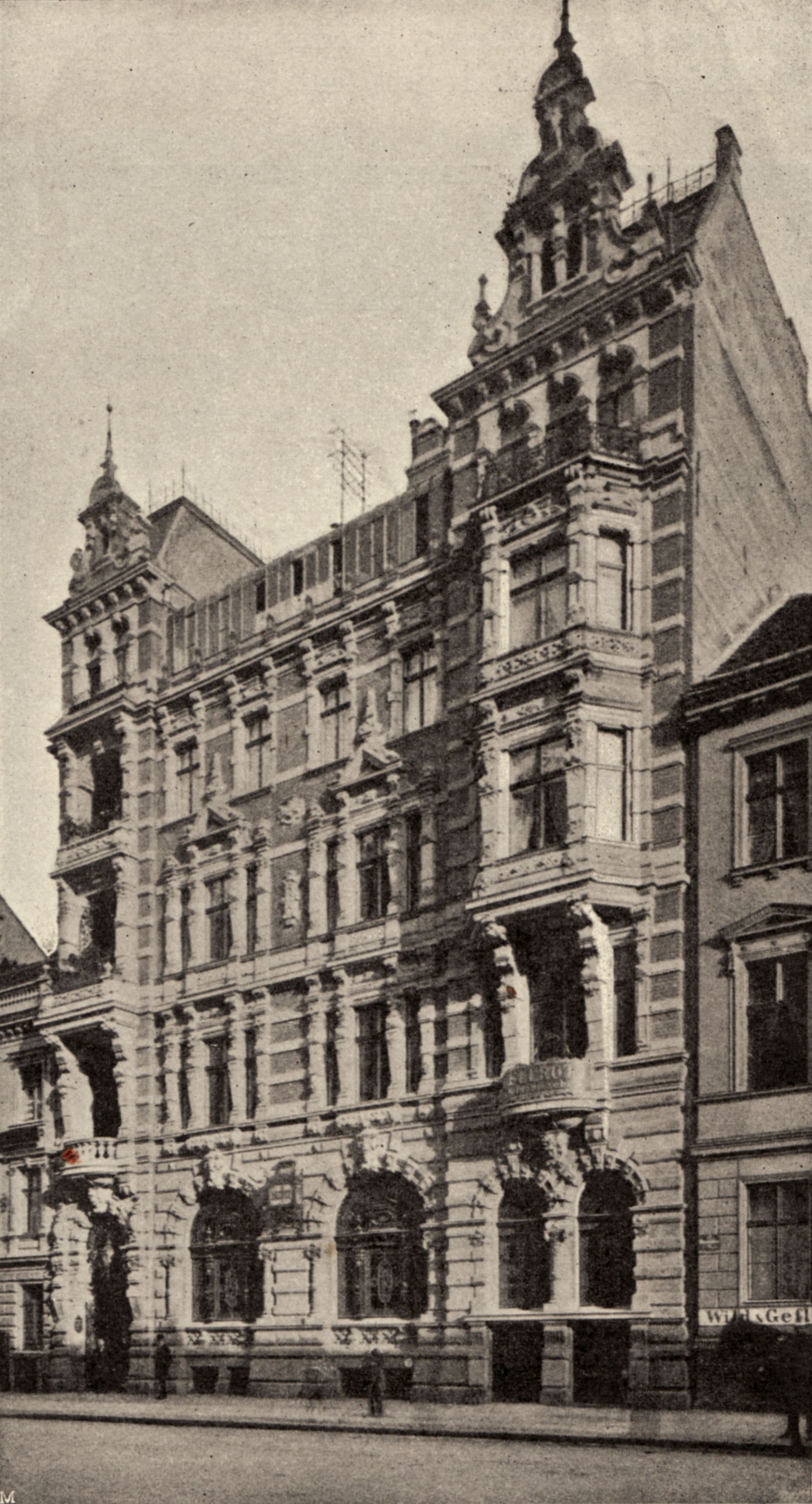 Berlin - Bierhaus Siechen, view